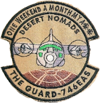 746th Expeditionary Airlift Squadron/189th Airlift Squadron - morale patch. used during the 189th Airlift Squadron's deployments to Iraq during Operation Iraqi Freedom